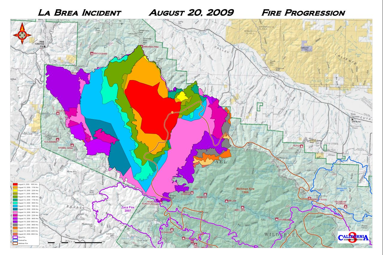 Progression of the La Brea Fire (Santa Barbara County) through 20 August 2009